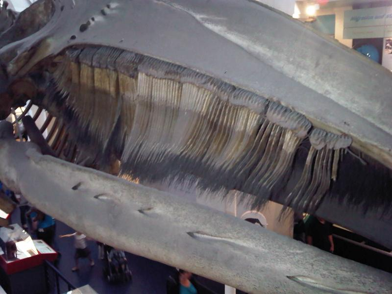 The gray whale's (Eschrichtius robustus) baleen or whalebone.